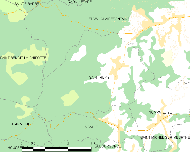 Map of French municipality Saint-Remy